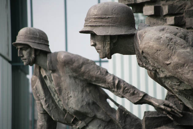 monument of Warsaw insurgents